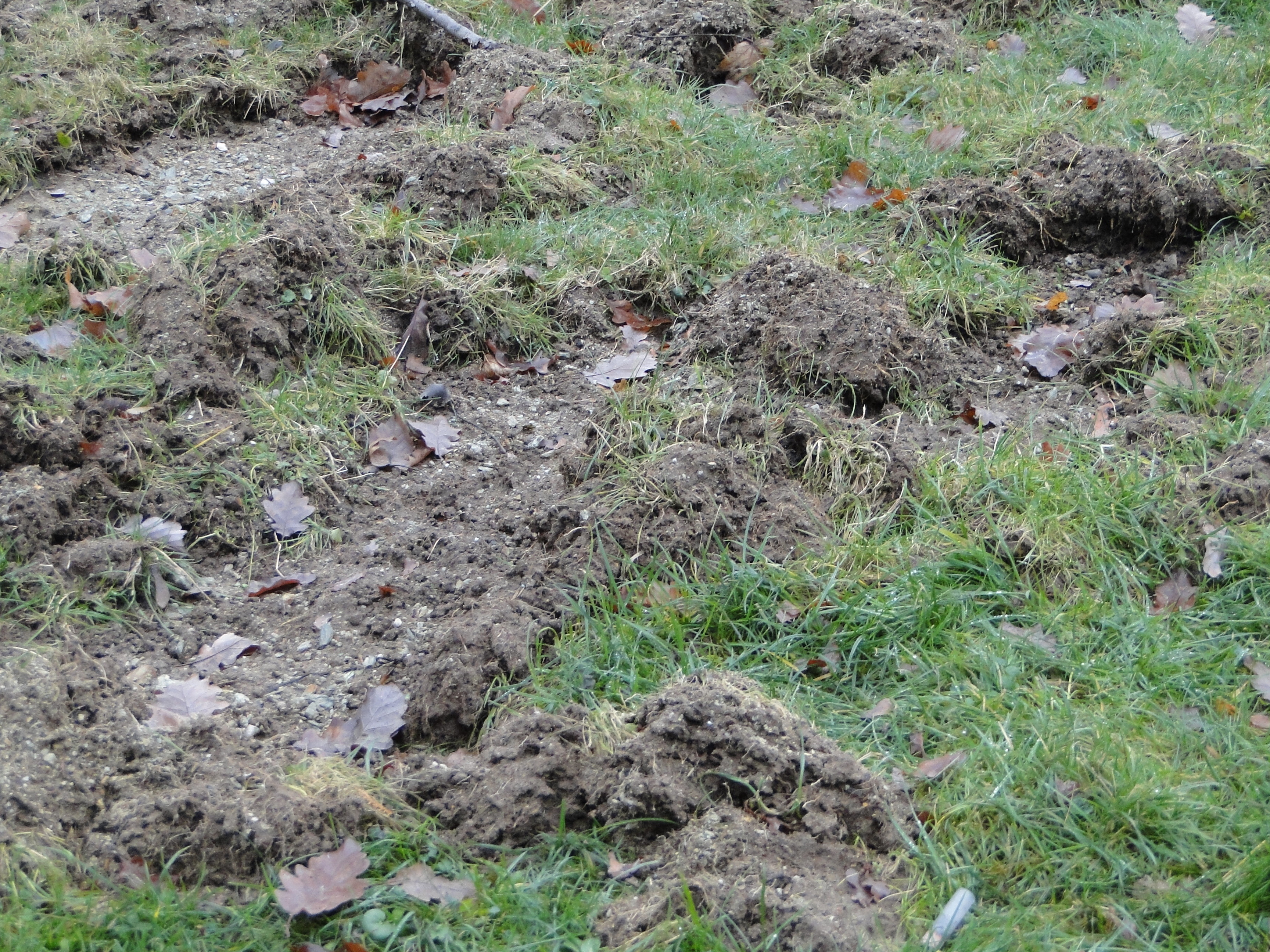 Crop damage of a wild boar sounder.